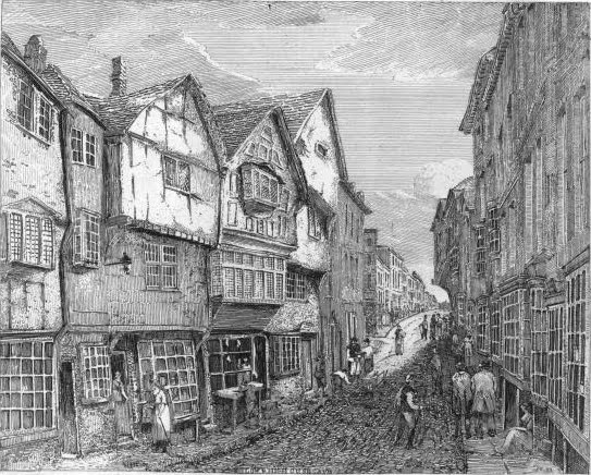 "Low and High Ousegate", in York, England, illustration from Antiquities of York, 1813/